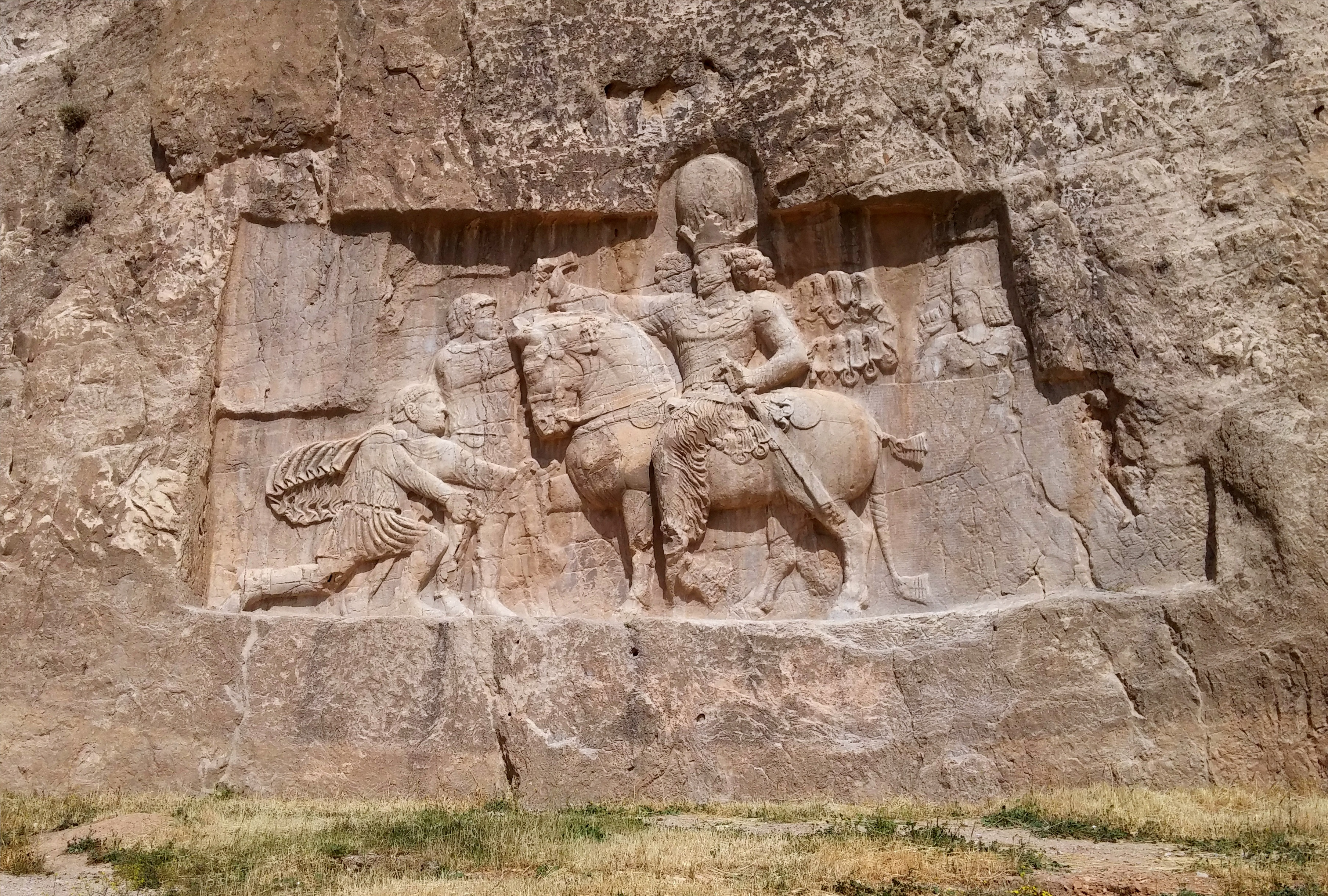 A rock-face relief of Shapur I over the Roman Emperor Valerian_ Sahand Ace